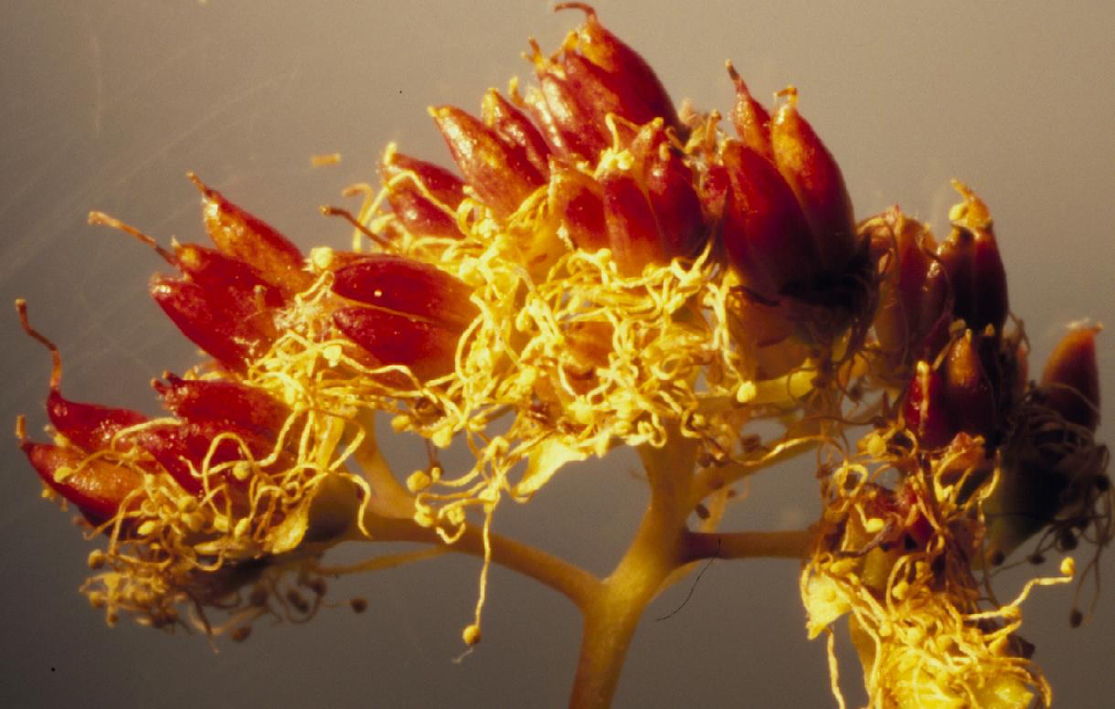 The fruit comprises several tiny follicles per flower.